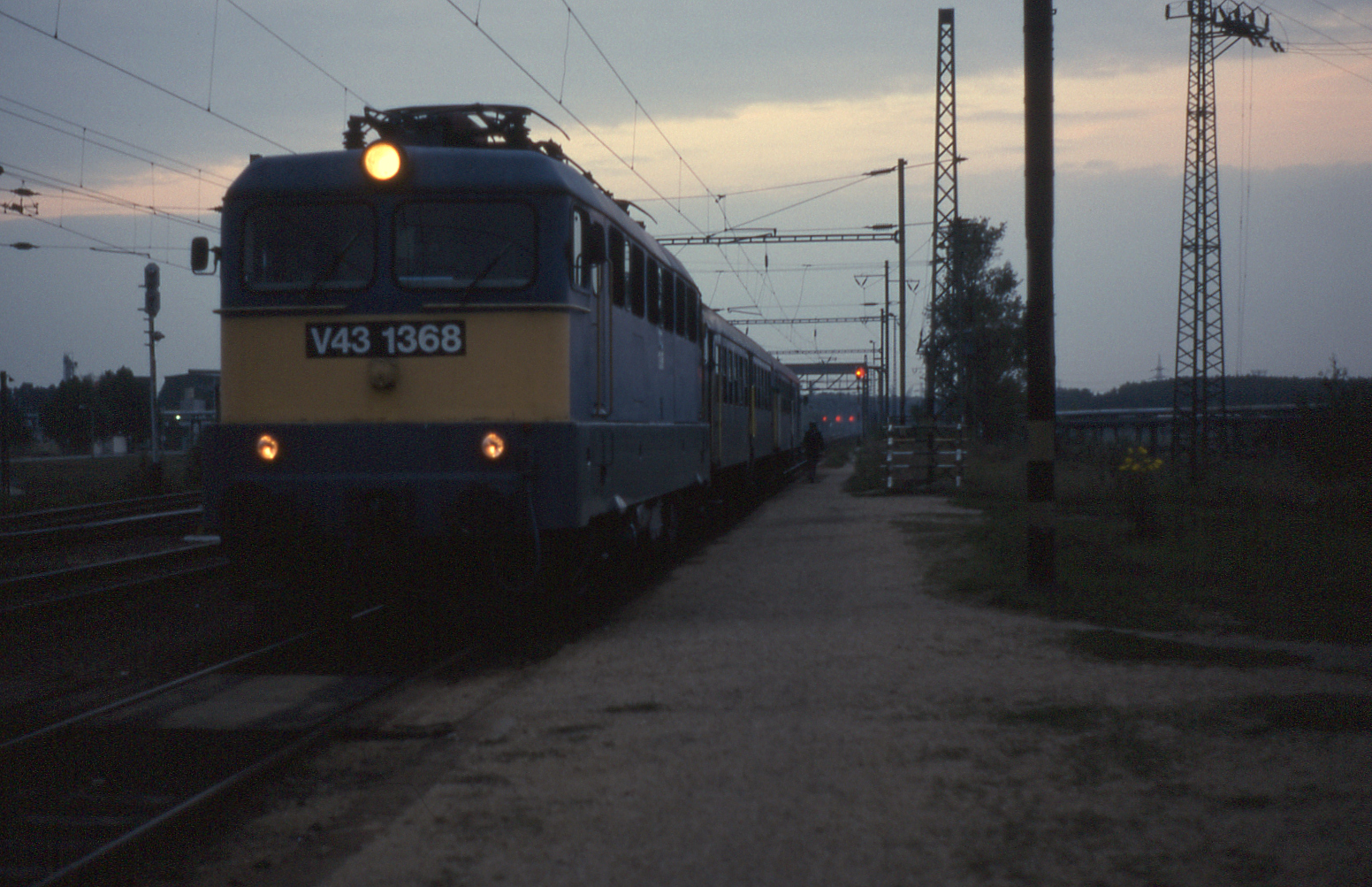 Taken in fading light conditions, V43 1368 on a short push-pull set has arrived at the end of the short branch from Nyékládháza to Tiszapalkonya-Erõmõ on 20 September 1996. Train 35011, 17:43 Miskolc-Tiszai pu. to Tiszapalkonya-Erõmõ.